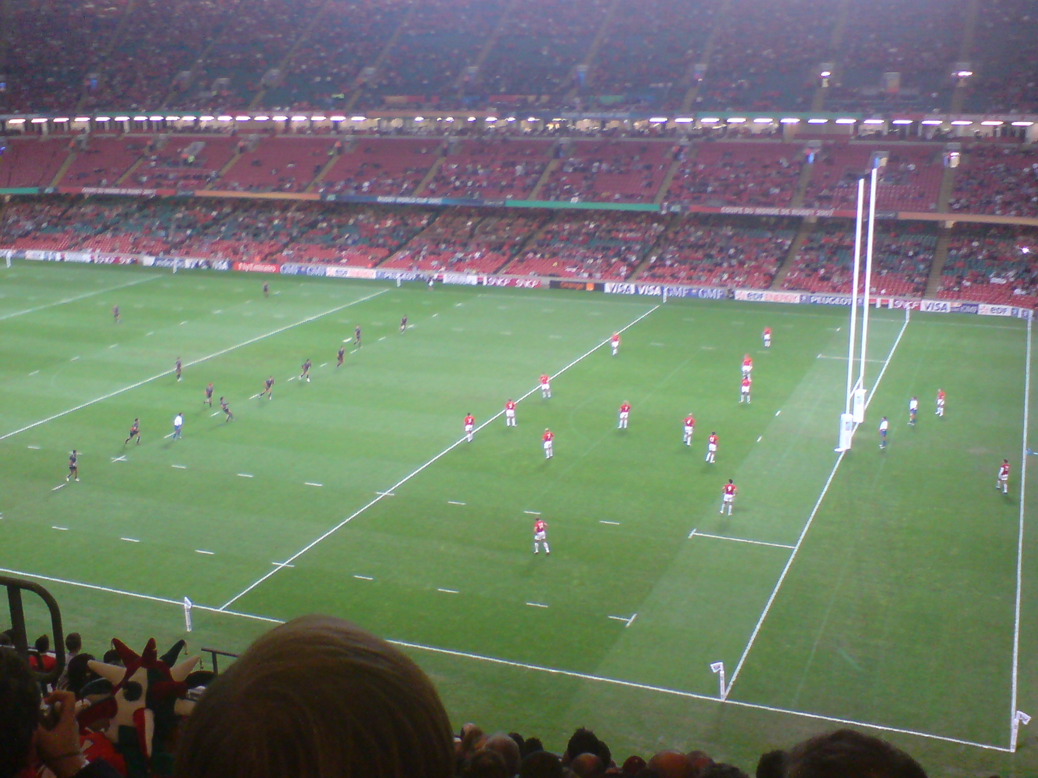 Onishi's kick at goal is successful and Japan go 3-0 up